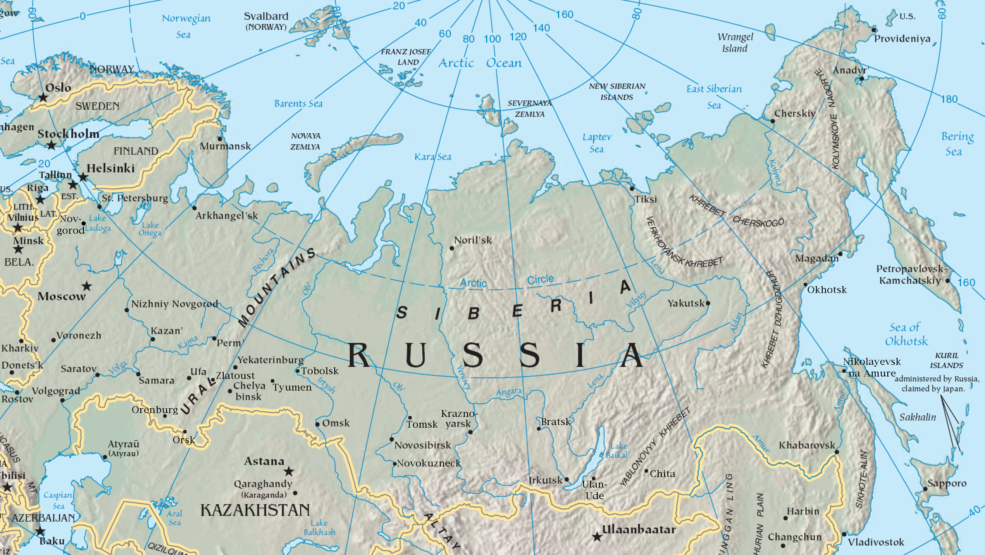 Map of northern Asia